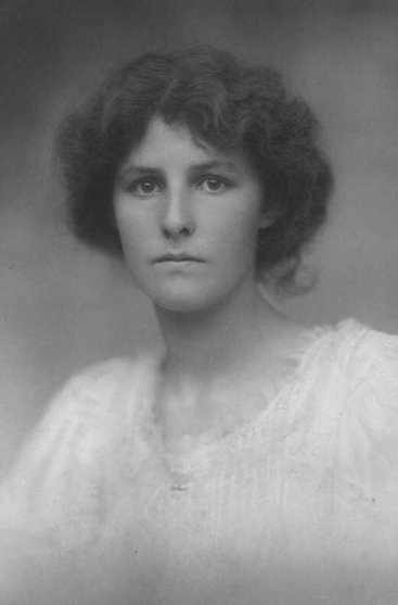 Portrait of Daphne Olivier